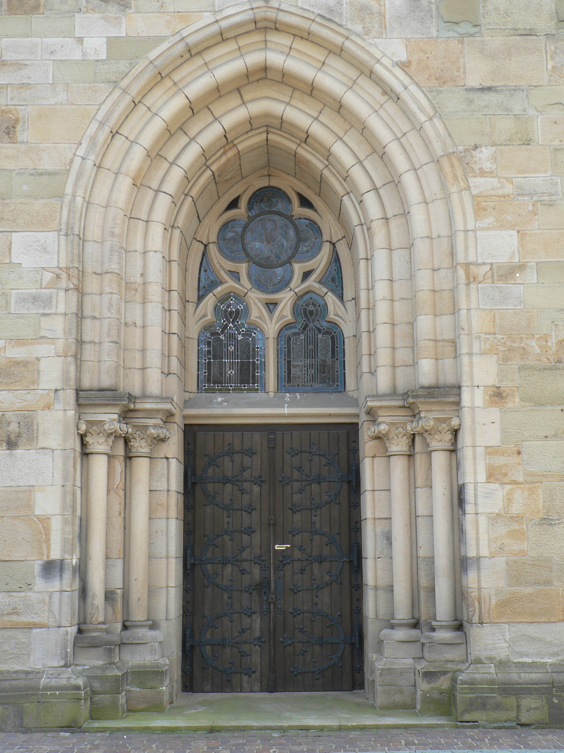 own file